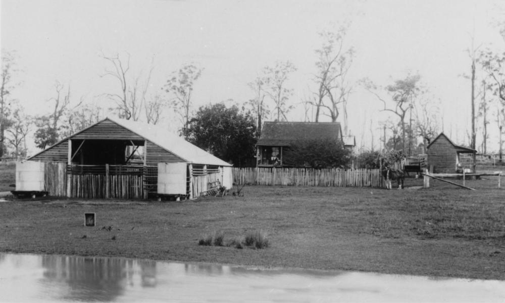 Brightview farm near Lowood, 1905.